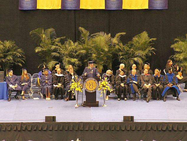 Western Governors University Graduation